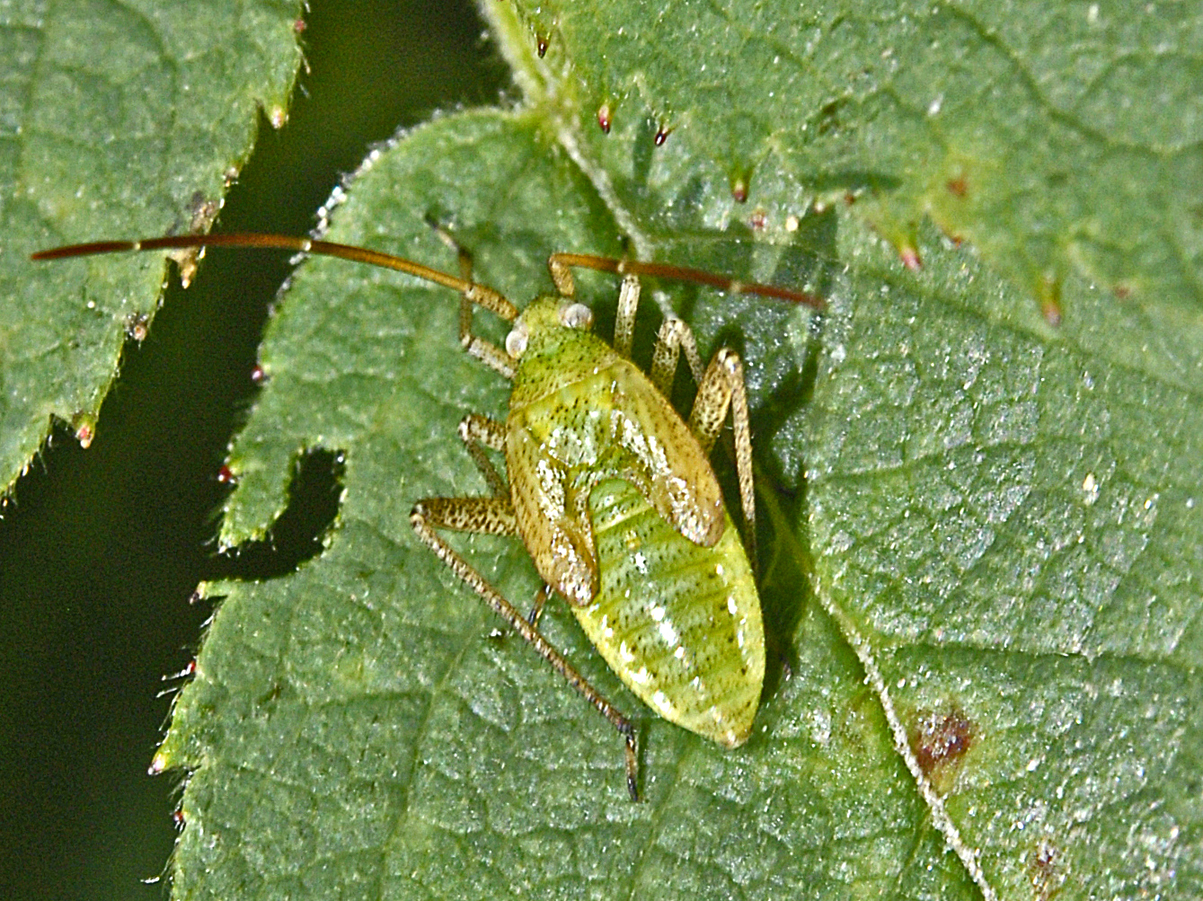 Adelphocoris lineolatus, nymph. Pragelato, Torino, Italy